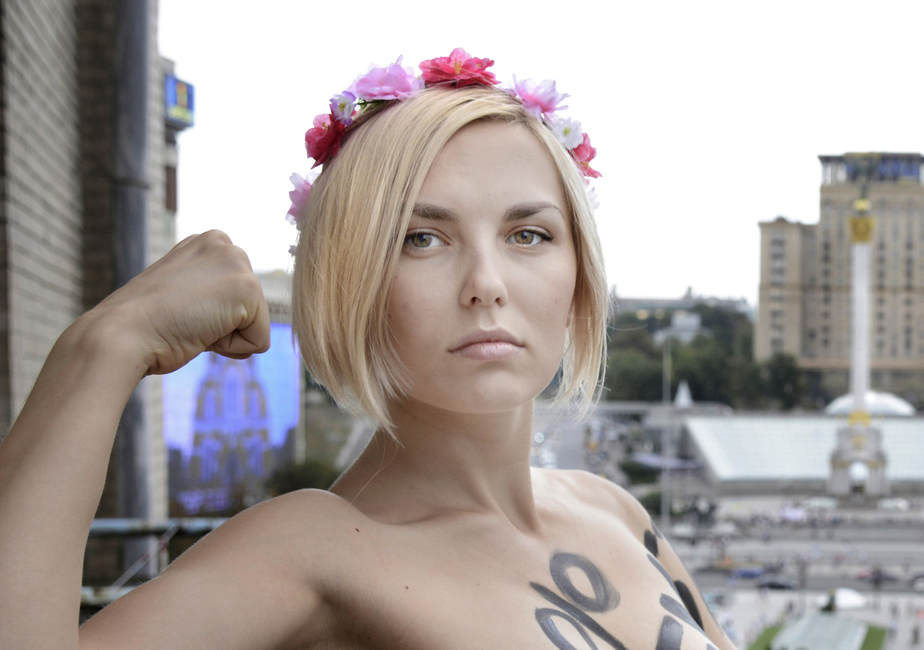 Yana Zhdanova, in Kiev on 1st August 2013.